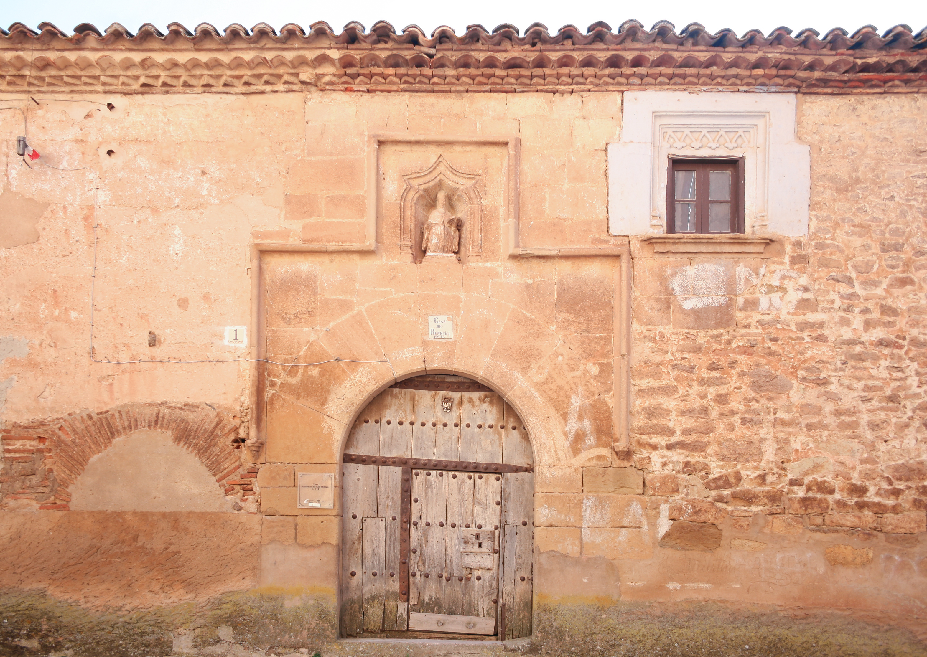 House of San Millán, Torrelapaja, Aragon, Spain